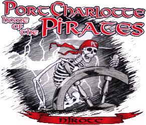 PCHS NJROTC logo